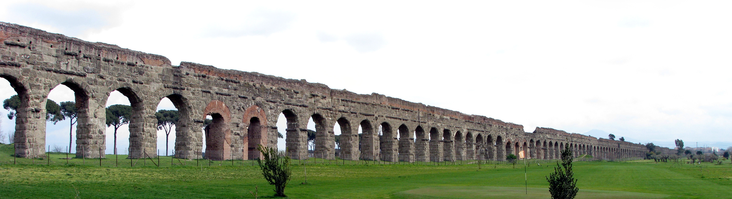 Panoramic view of the Aqua Claudia near Rome, the longest unbroken stretch of an above-ground aqueduct near Via Lemonia, Rome with a length of 1375 m. On top of the Aqua Claudia is the Anio Novus channel